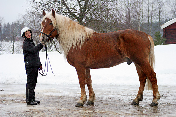 Finnhorse stallion Toja, draught type